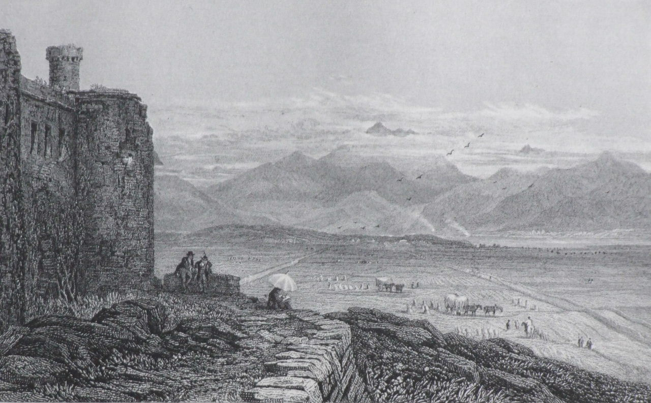 Engraving from Hanes y Brutaniaid a'r Cymry by Gweirydd ap Rhys (1886), showing Harlech Castle (Gwynedd, Wales) and the Snowdonia mountains. From an earlier painting (first half 19th century?)